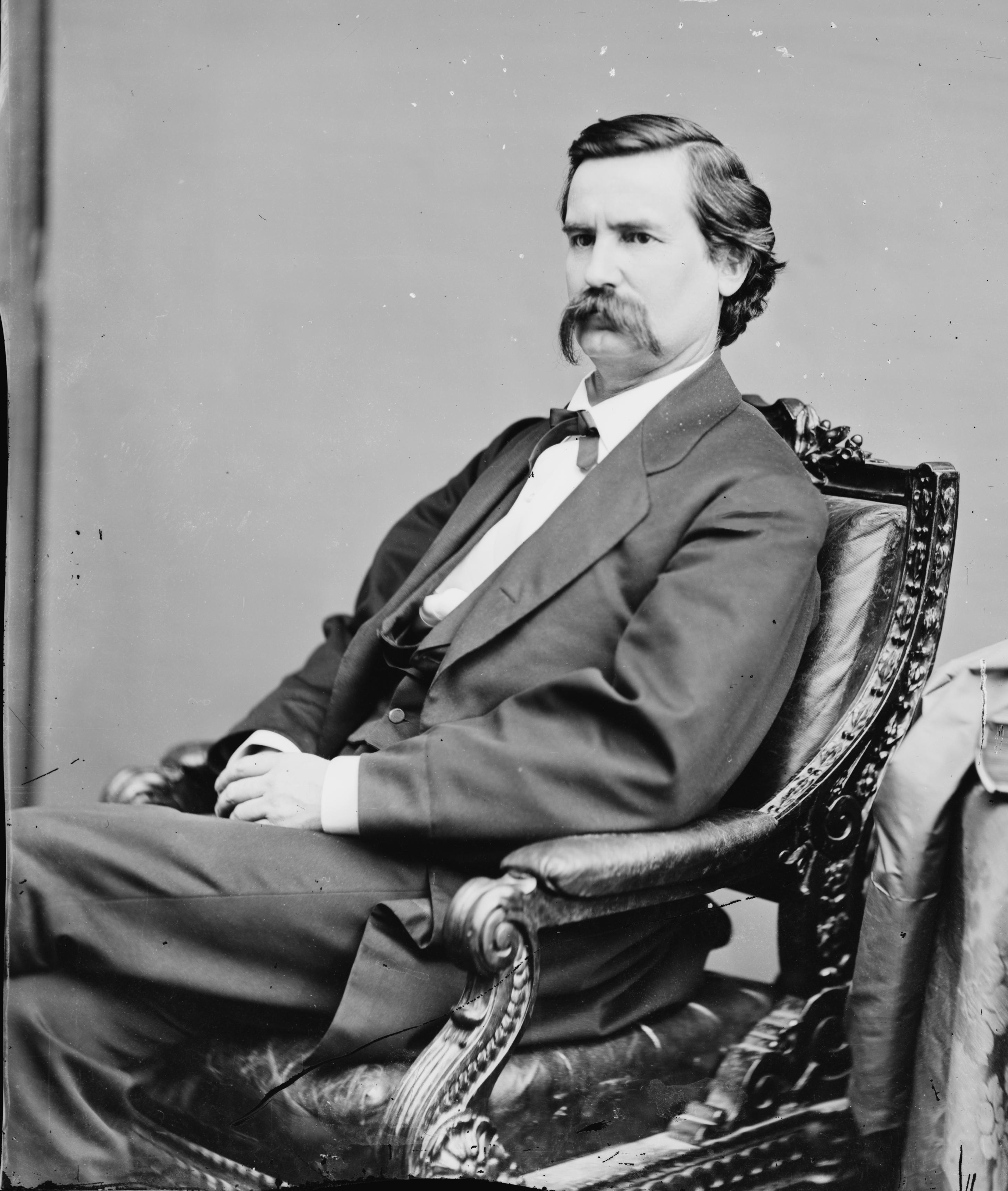 Daniel S. Norton. Library of Congress description: "Hon. Daniel Sheldon Norton of Minn."